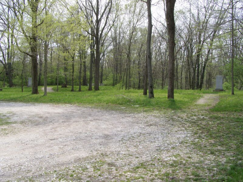 Encampment area of the American Troops, when they were attacked by the Miami tribe as part of the Battle of the Mississinewa.The site is is near the city of Marion, Indiana|Marion, in Grant County, Indiana.